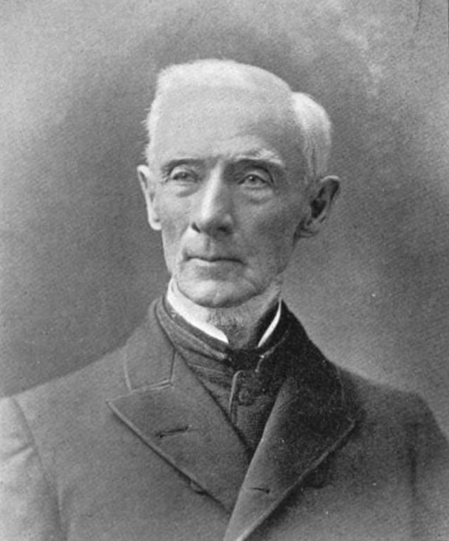 Richard Owen (1810–1890), an American geologist, Civil War officer, Indiana University professor, and Purdue University president.